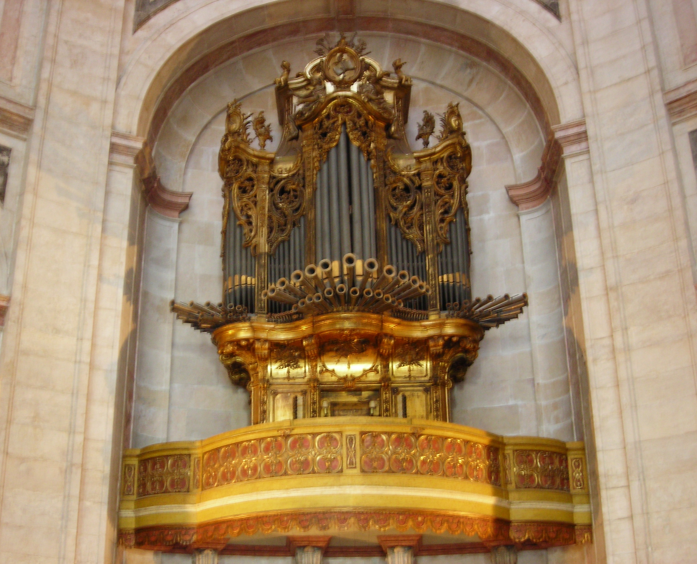 Pipe organ at Panteão Nacional, used to be in the Sé